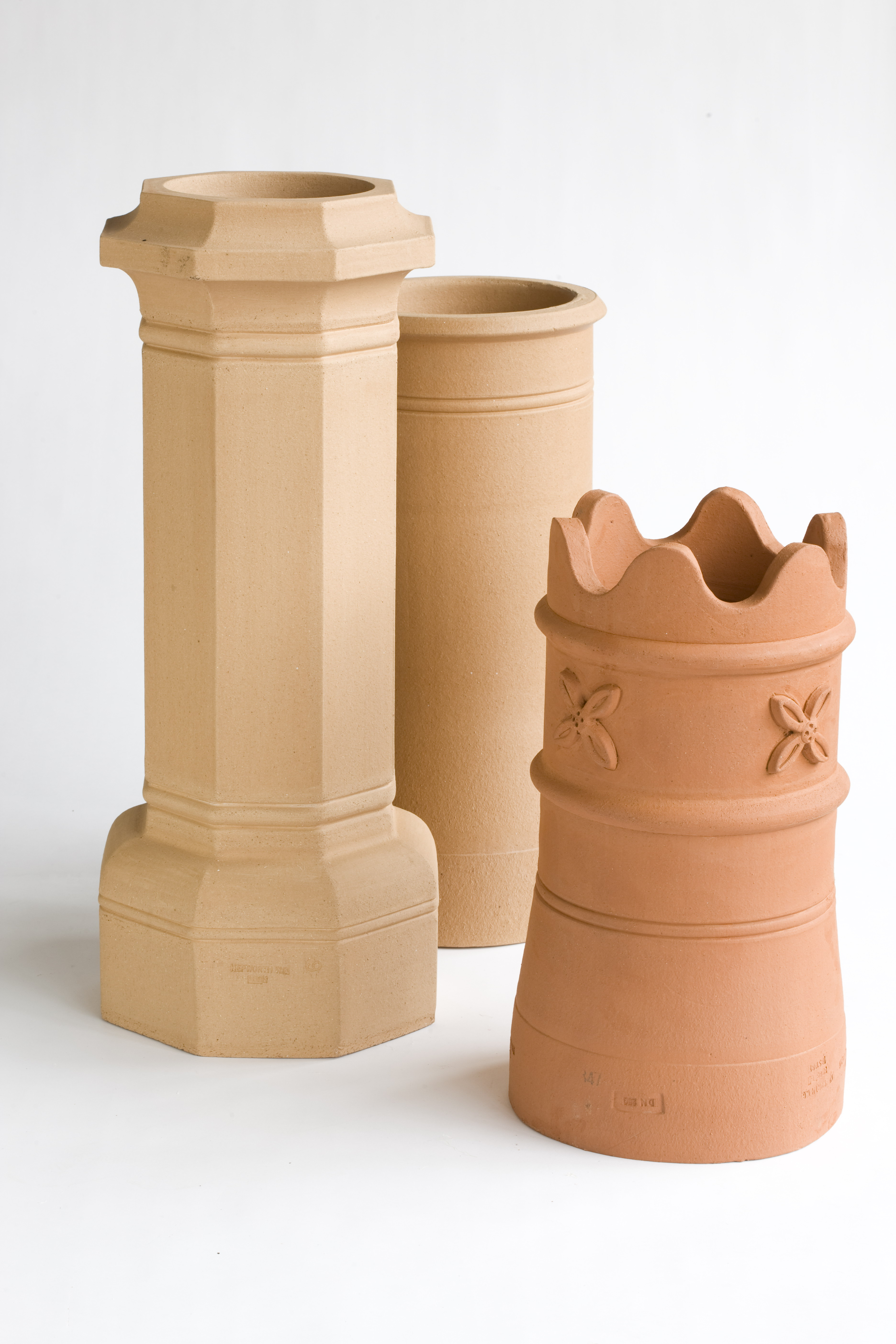 chimney pot collection, kaminpot